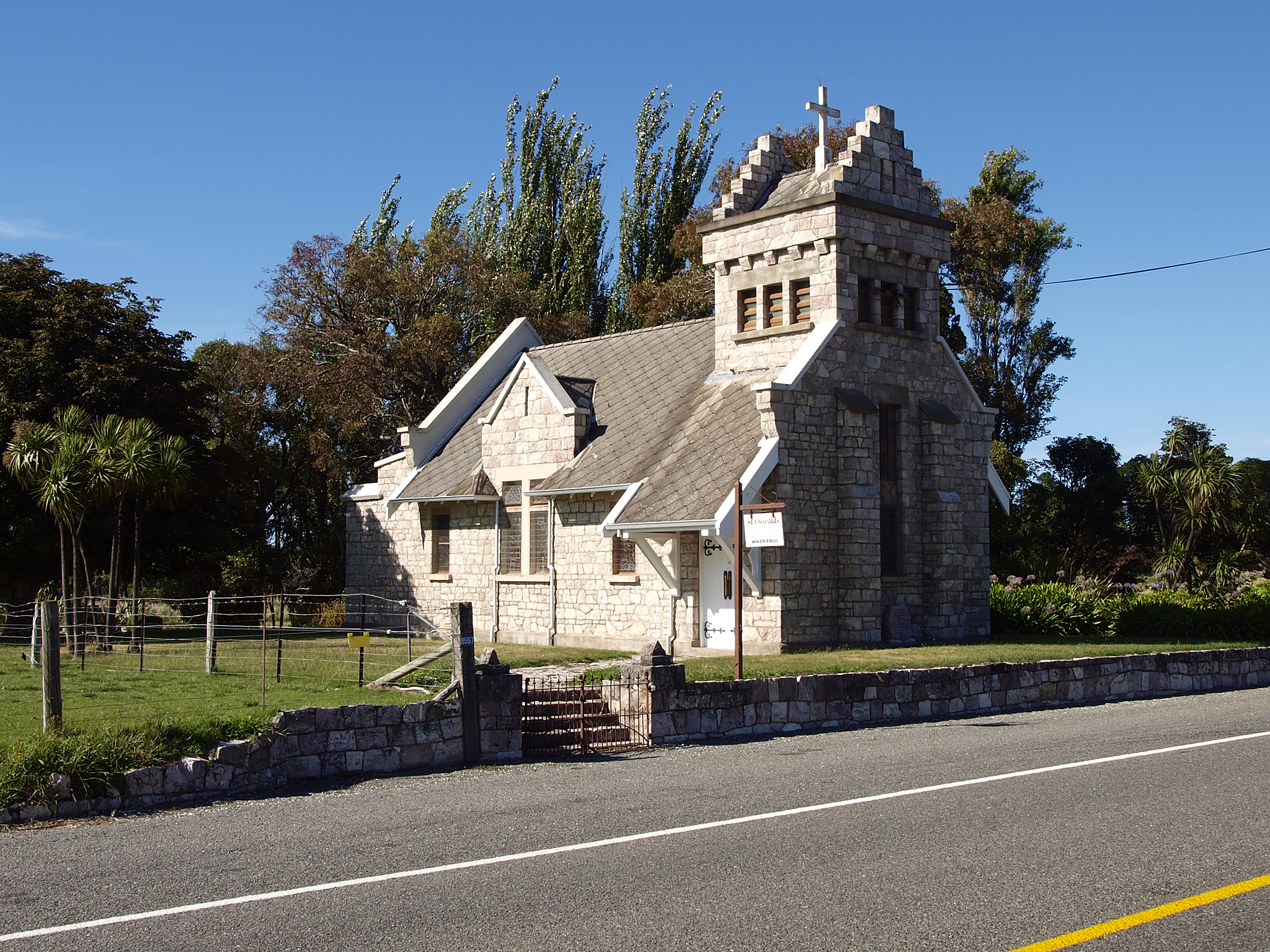 St Oswalds, Wharanui, Marlborough Region, South Island, New Zealand (Anglican Church, build 1927)